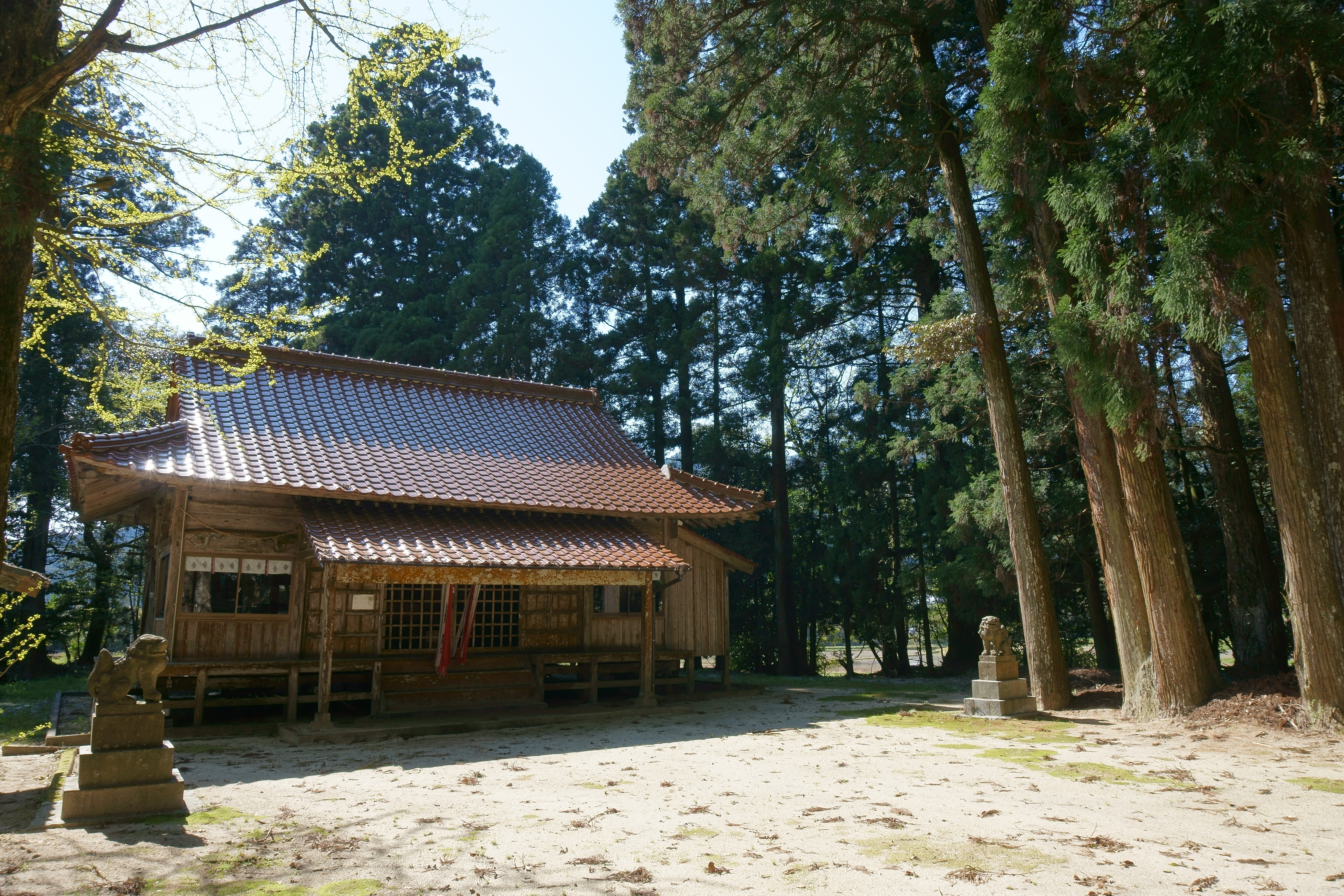 The main hall and Japanese cedar forest at Sugi Shirne in Mitsuse, Saga city, Saga prefecture.